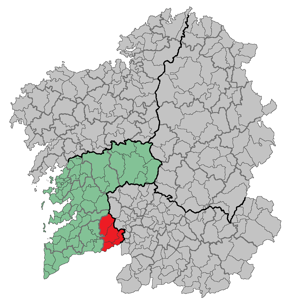 Region of Galicia (Spain)Based in: Image:Location of Betanzos.png Source: Designed by Leoplus. Original picture, designed by Caiser over a work made by Alyssalover.